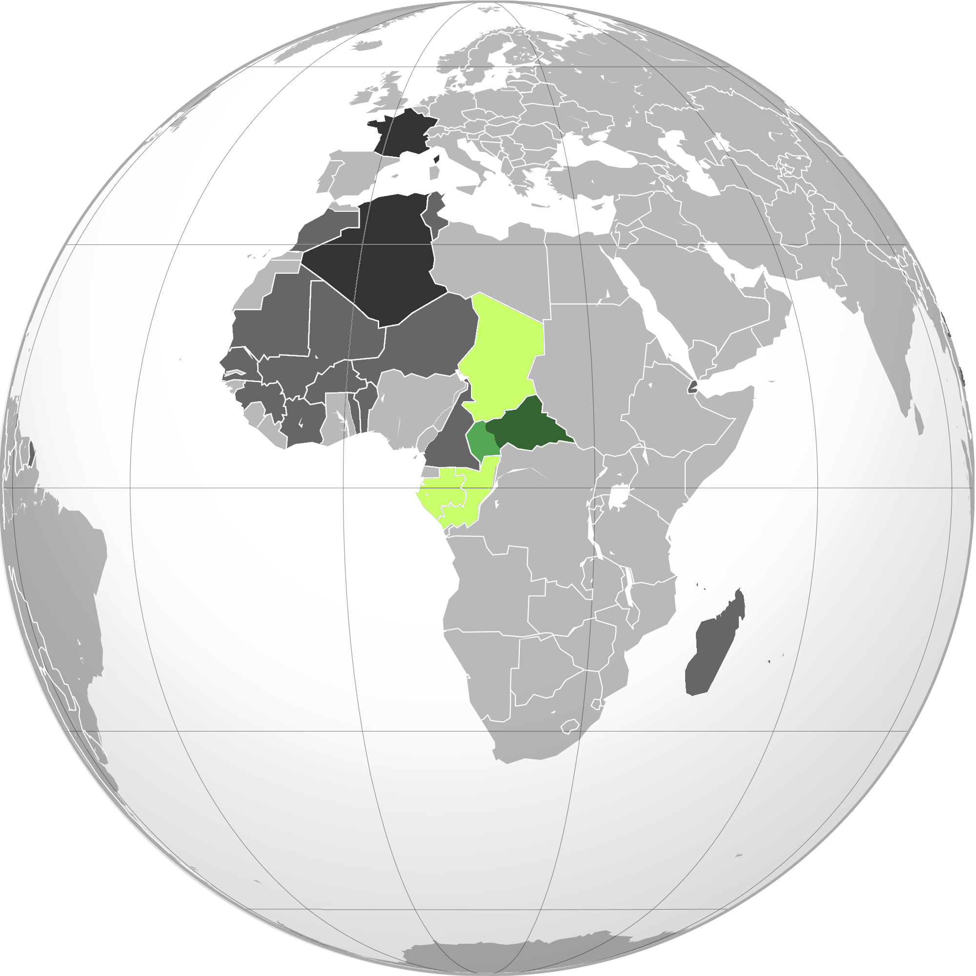 Green: Ubangi-Shari (prior to 1916) Lighter green: Ubangi-Shari (1916-1960) Lime green: French Equatorial Africa Dark gray: Other French possessions Darkest gray: French Republic